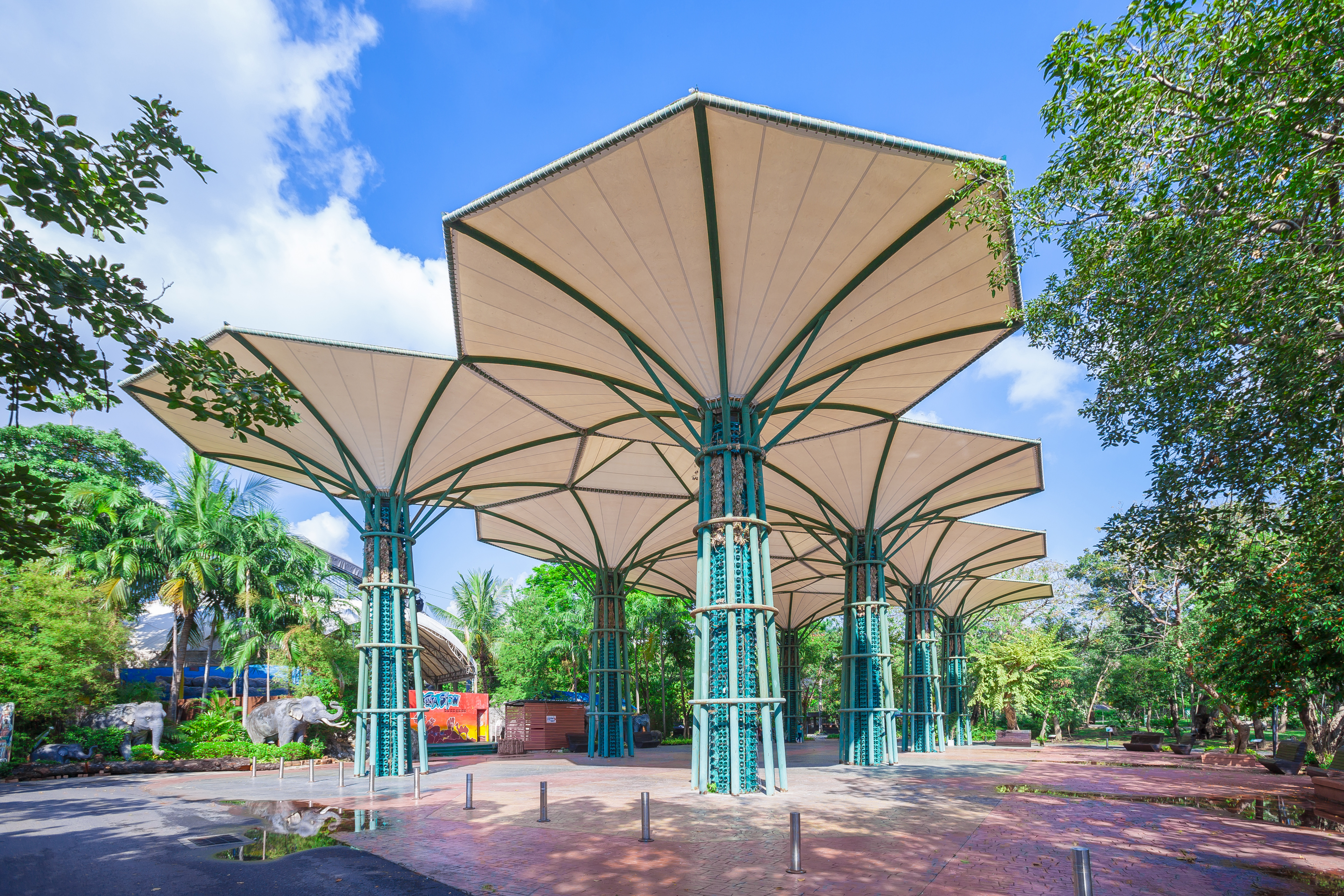 The Fabric roof in Activities Ground at Dusit Zoo, Bangkok.